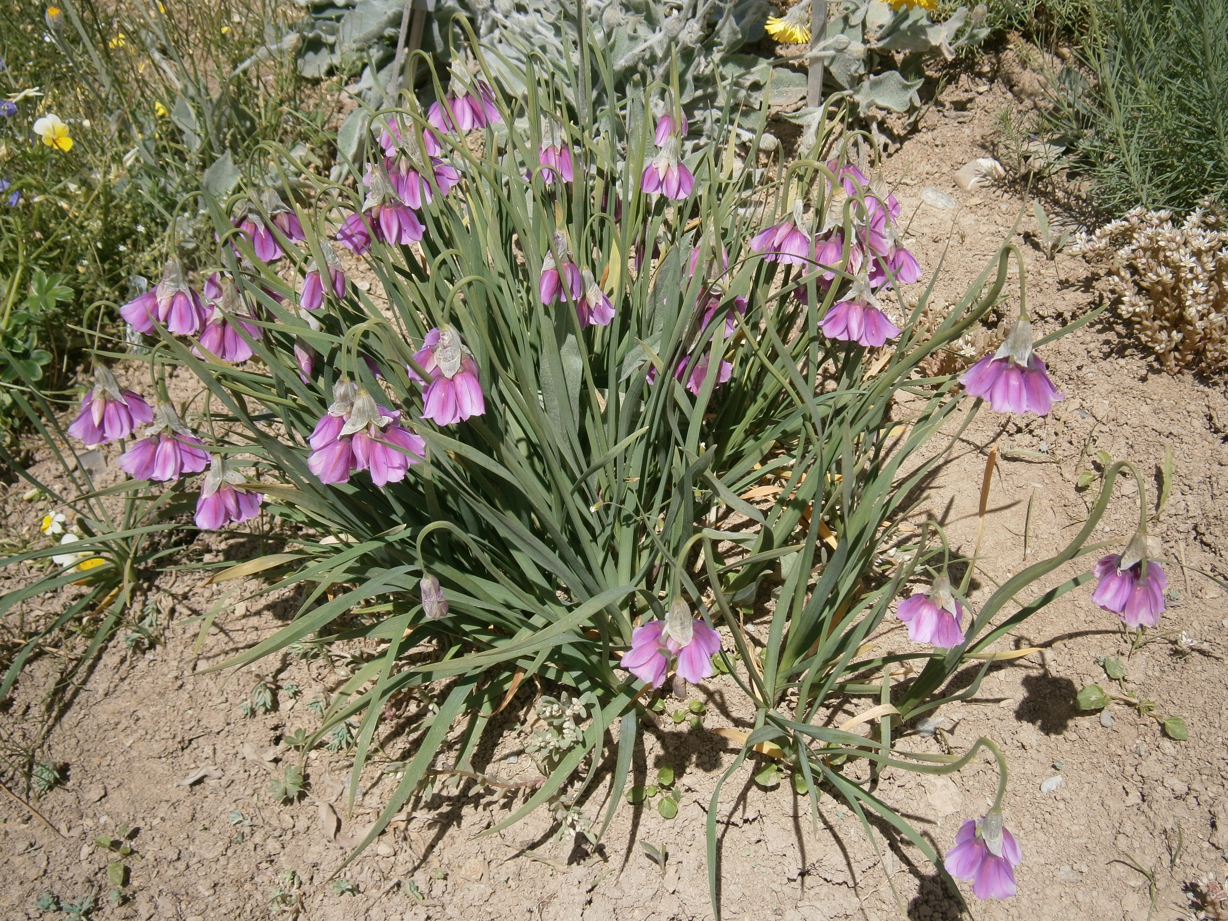 Allium insubricum in the Jardin Botanique Alpin du Lautaret